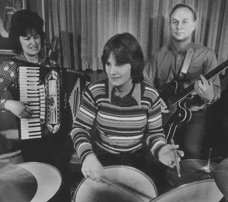 1977 PRESS PHOTO LYNN ROETHKE AND PARENTS IN THEIR BAND THE FAMILY THREE